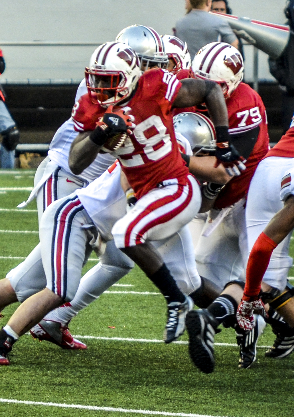 The day Montee Ball tied the NCAA career TD mark.